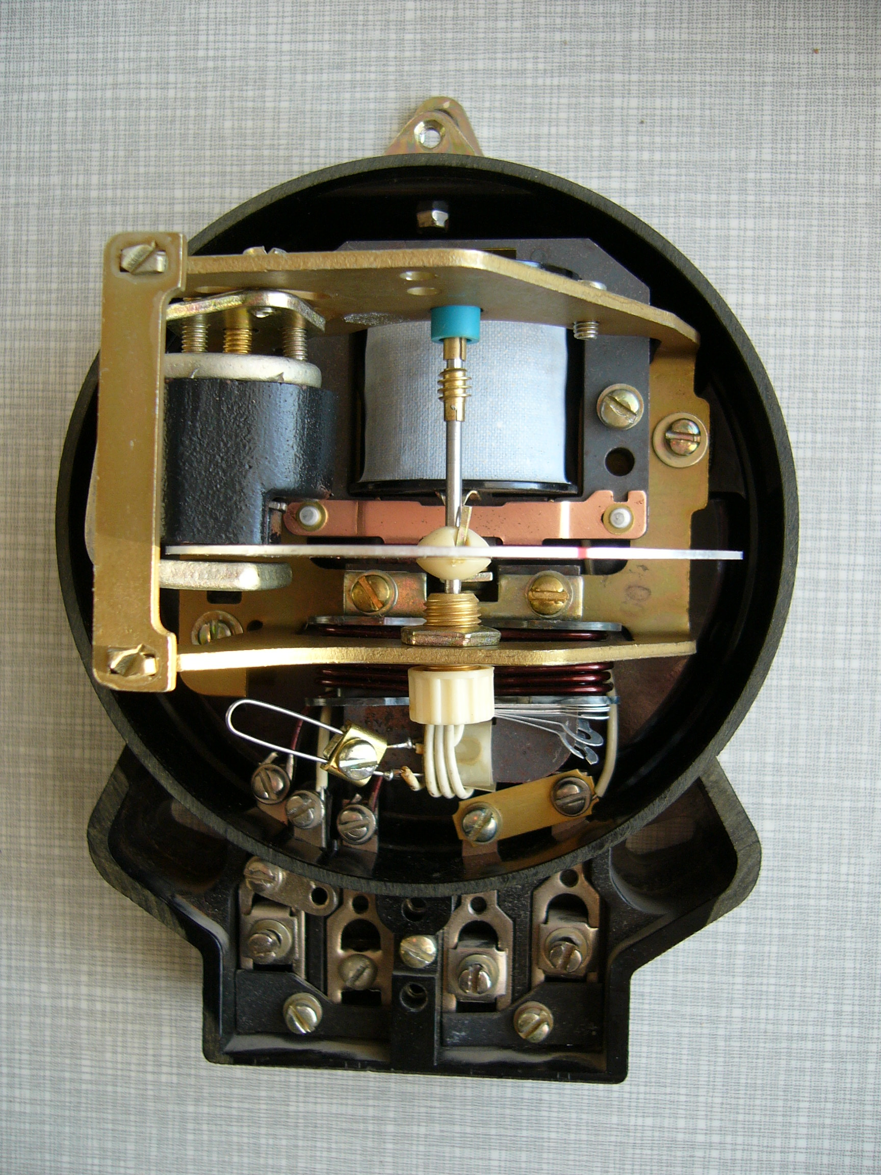 The mechanism of soviet single phase induction electric meter СО-И446